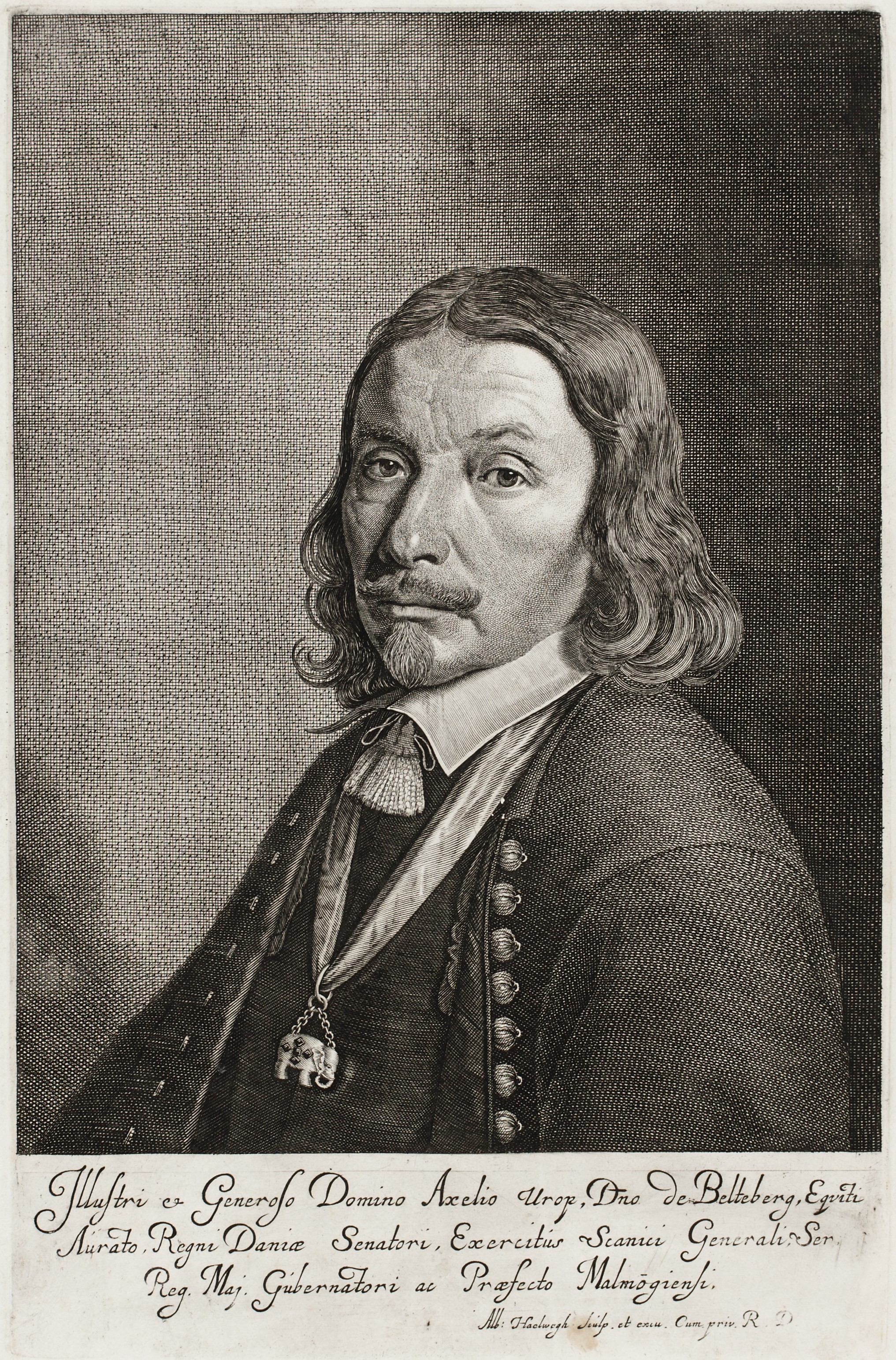 Note: For documentary purposes the original description has been retained. Factual corrections and alternative descriptions are encouraged separately from the original description.Porträtt av Axel urup till Baeltebjerg, riksråd (1655), 1650-tal. Nyckelord: Herrmode, Frisyrer, Föremålsbild, Riksråd, 1650-talet, Herrar